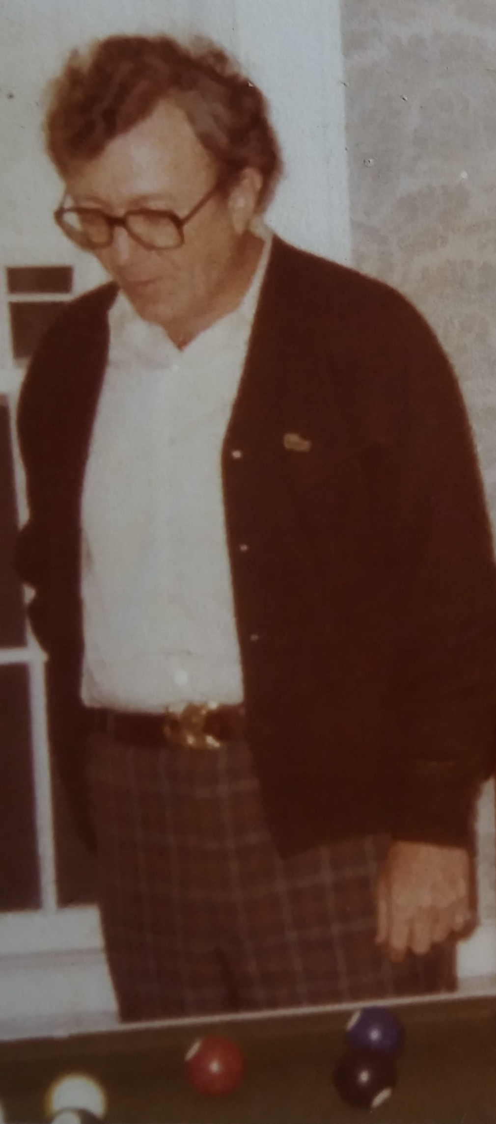 George Rickey, cropped from a photo of him with his neighbor Machbi Dobkin (husband of Marjorie Housepian Dobkin), taken in West Lebanon, NY, probably in the late 1970s.